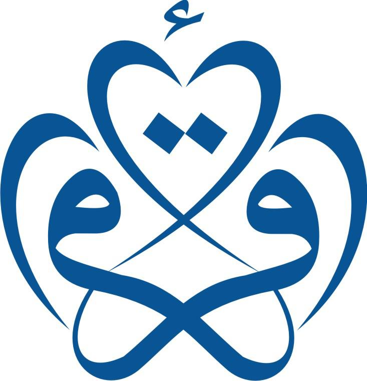 INU main logo (arabic)